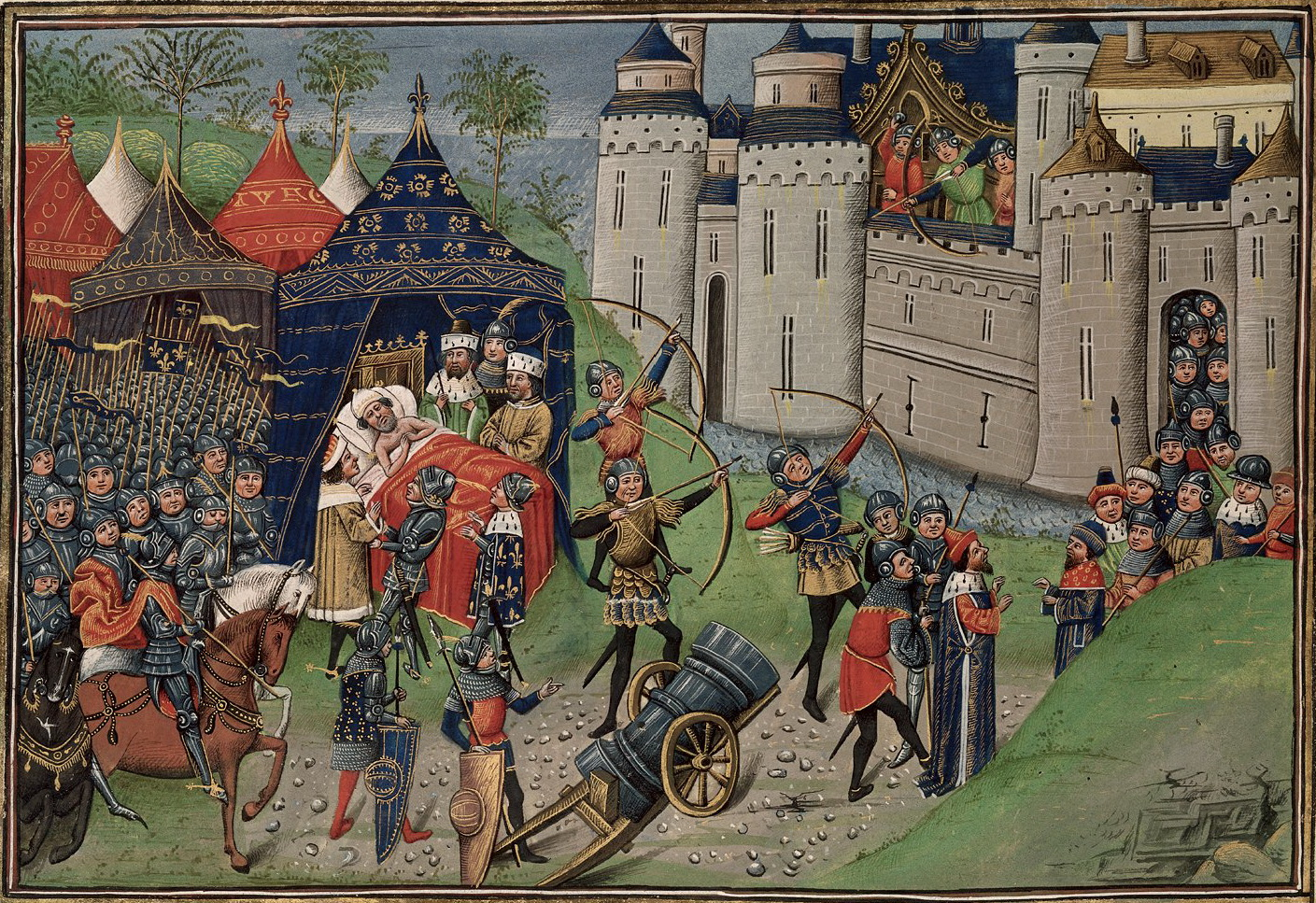 Death of Bertrand du Guesclin at the siege of Randon 1380. (British Library, Royal 14 E IV f. 47v)